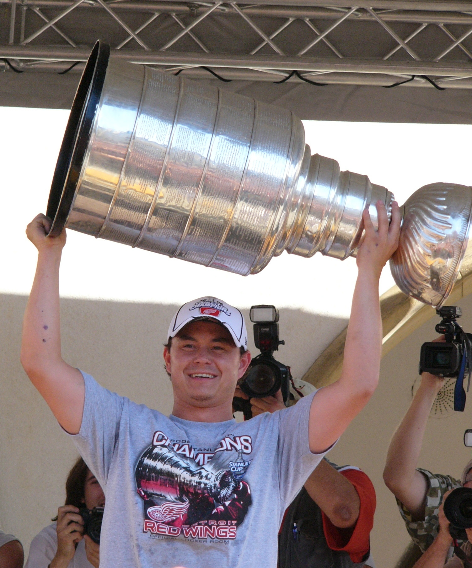 Czech professional ice hockey player Jiří Hudler is holding Stanley Cup.